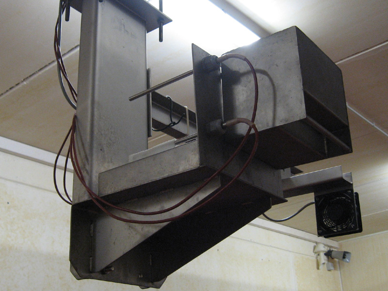 Electronic sensor station for humidity measurement